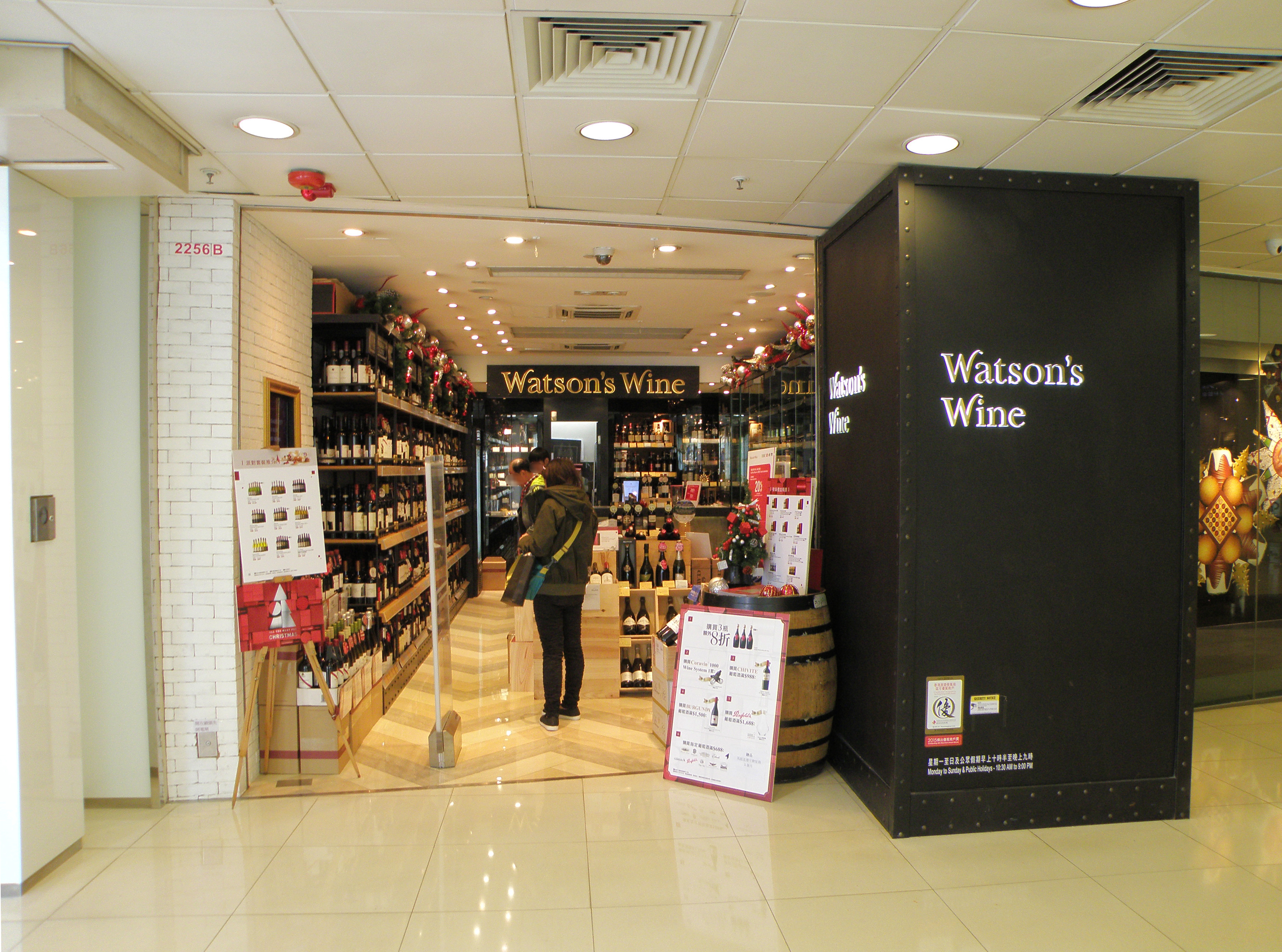 Watson's Wine, Hong Kong.